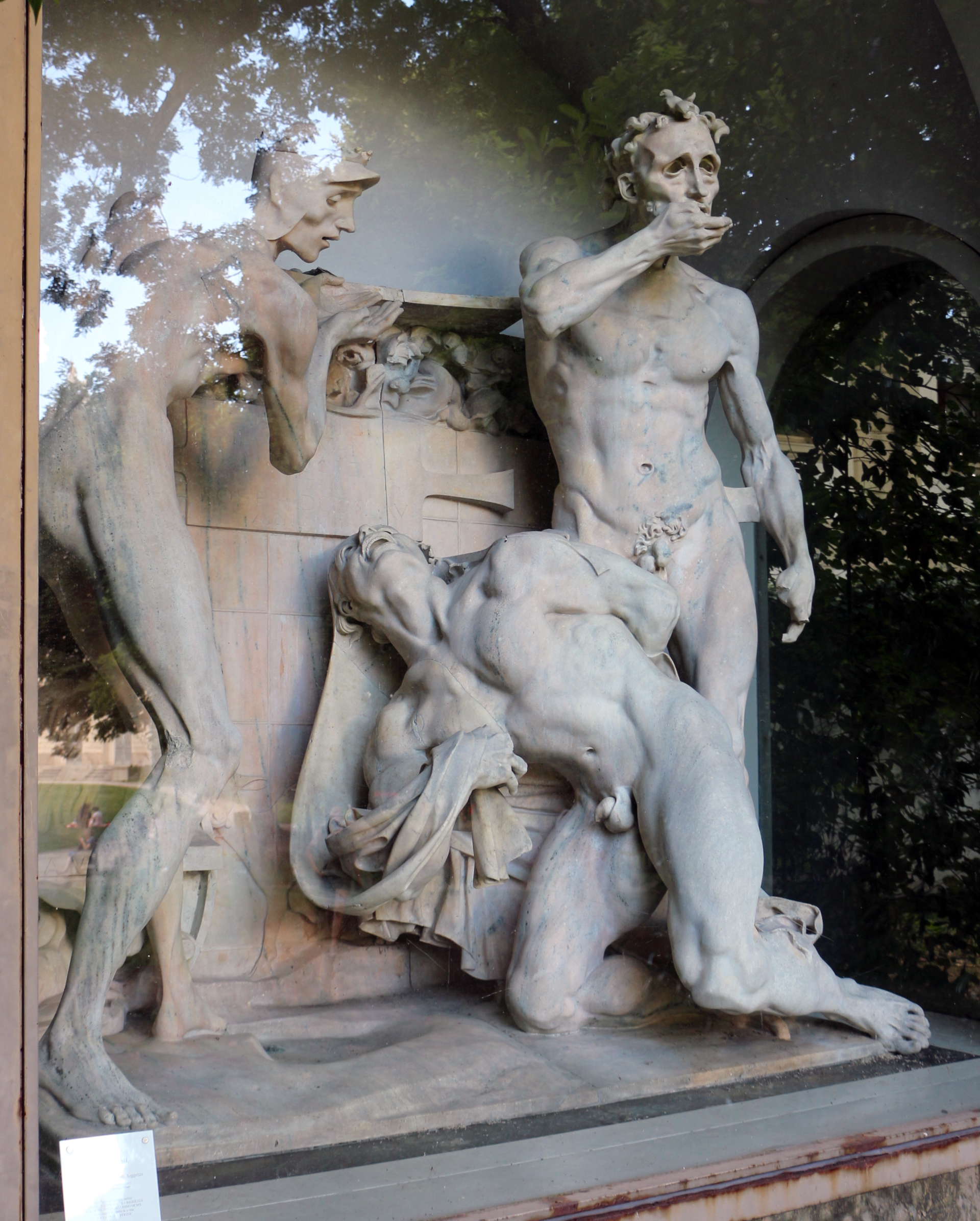 Villa Reale (Milan)